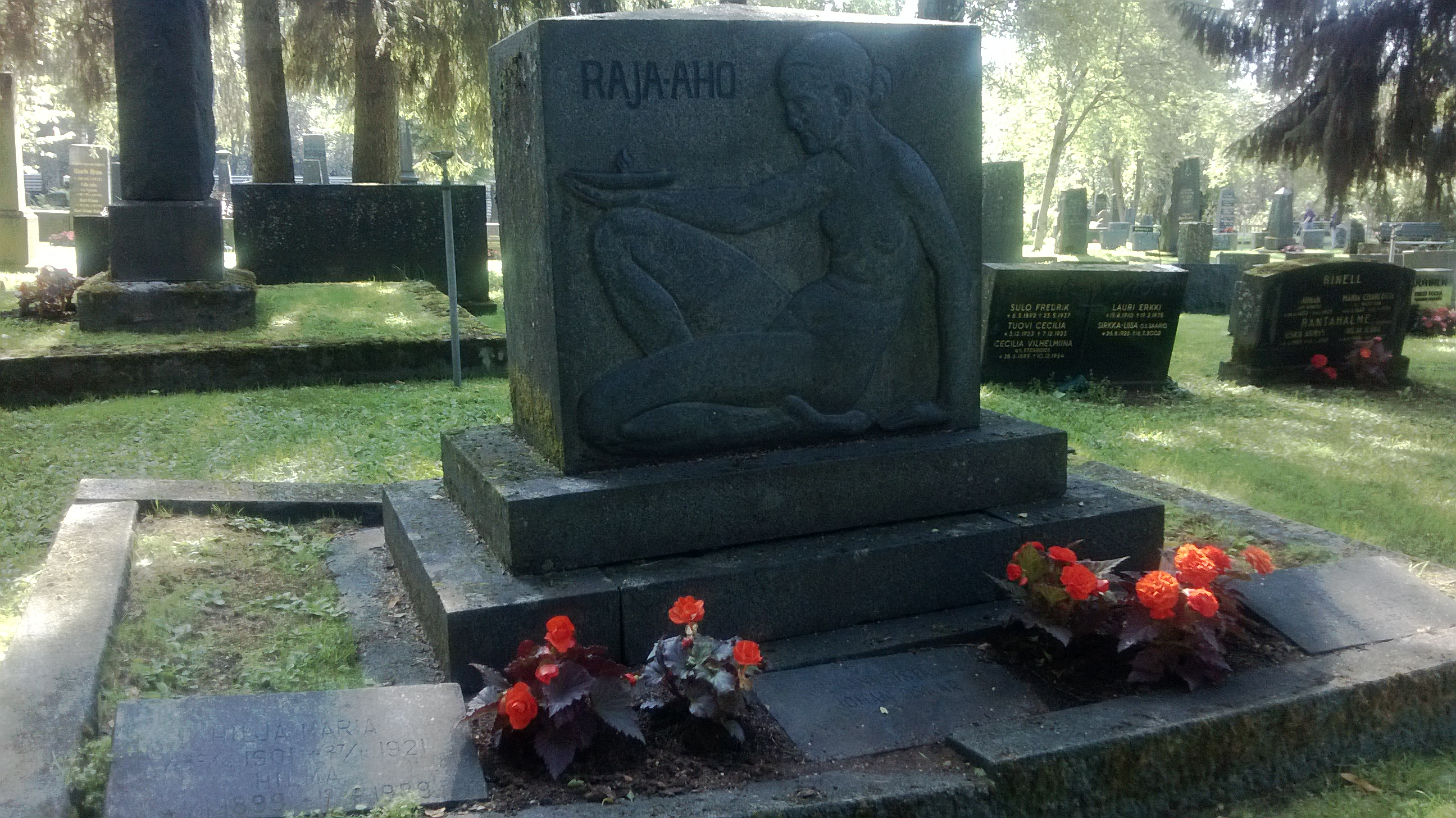 Grave statue of the sculptor Oskar Raja-aho in Jyväskylä, Finland